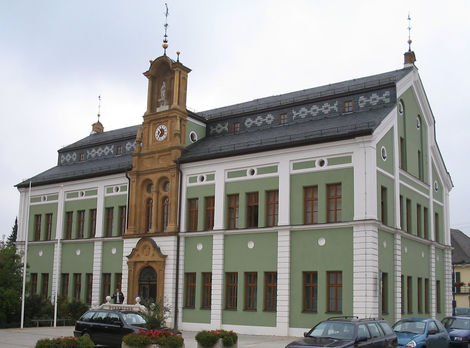 Town hall in Wolnzach